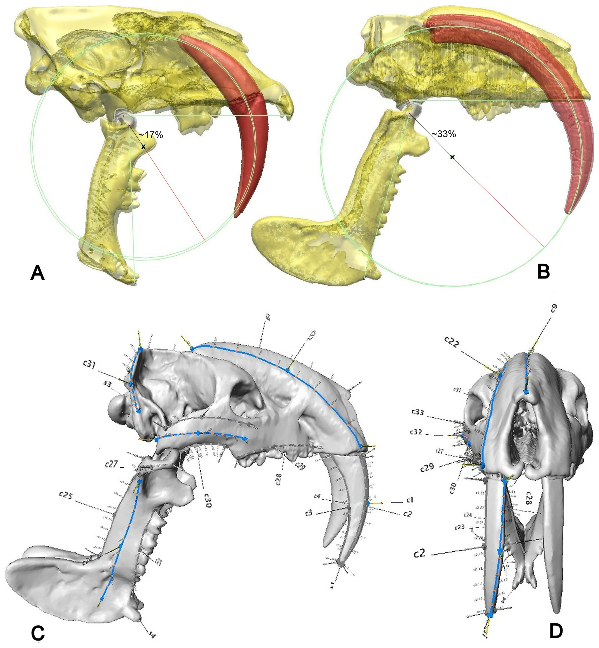 Centres of arcs described by the upper canine teeth. (A) Smilodon fatalis and (B) Thylacosmilus atrox. The distance of the centre from the jaw joint in Thylacosmilus atrox suggests that considerable translation as well as rotation was involved in the insertion of the canine teeth. Landmark positions shown on Thylacosmilus atrox. (C) lateral and (D) frontal views of right hand side landmarks. Curves shown in colour relate to Landmark point Von Mises mean stresses. Right hand side landmarks only shown.